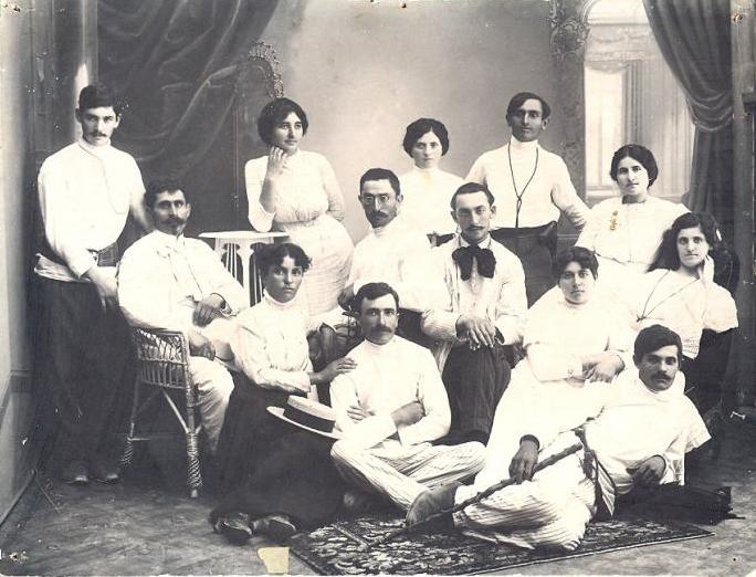 The first settlers in Ein Ganim, which was established during the 1920ies and later incorporated into Petah Tikva.